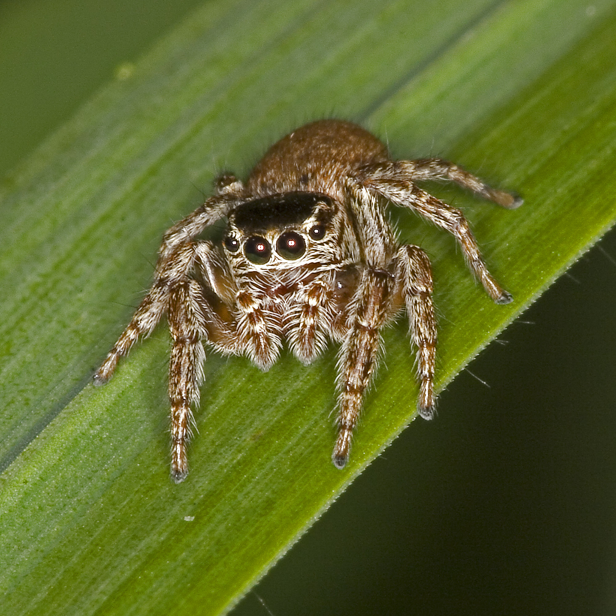 This is probably a female of Evarcha falcata (Clerck, 1758) (95%). There is a small unsafeness that this species is E. arcuata (5%). This specimen has a size of 5 millimeters. Thanks to Jürgen Peters for determination! Location: Laußnitzer Heide between Ottendorf-Okrilla and Königsbrück (Saxony, Germany) 5/180L f22 Film / Speed: ISO 200 Comment: Canon Ring Flash MR-14EX